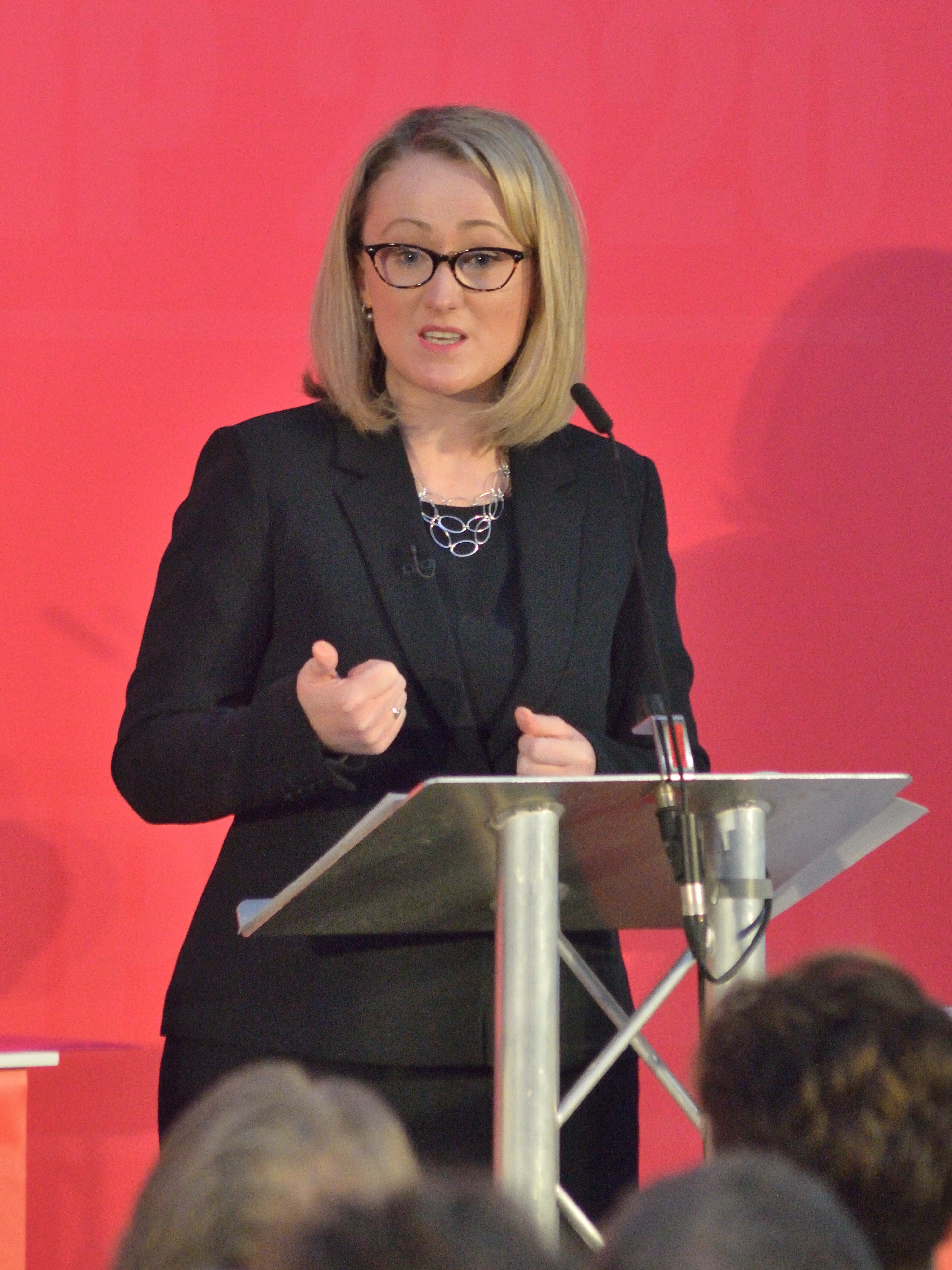 Rebecca Long-Bailey speaking at the 2020 Labour Party leadership election hustings in Bristol on the morning of Saturday 1 February 2020, in the Ashton Gate Stadium Lansdown Stand.